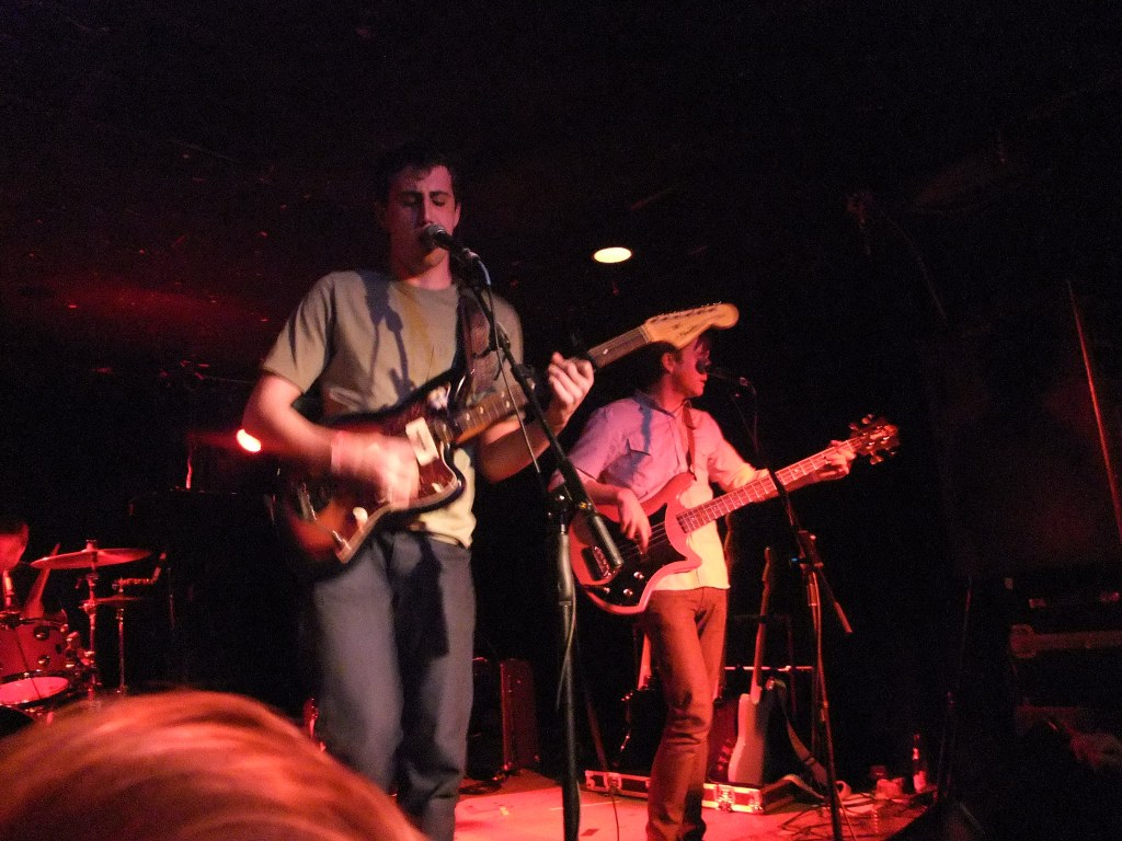 Cymbals Eat Guitars at Hi Dive, Denver CO